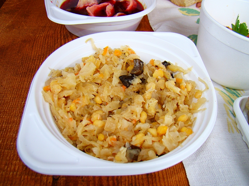 Christmas in Poland